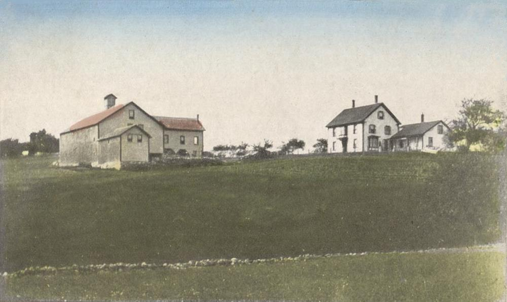 Ridgefield Farm, D. S. Burleigh, proprietor; Meredith, New Hampshire; from a 1917 postcard published by E. C. Mansfield.